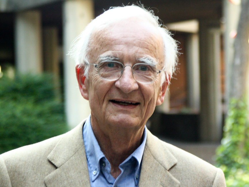 Norman Paech, DIE LINKE